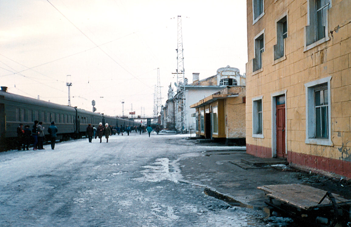 4683km from Moscow. Nizhneudinsk is a town in Irkutsk Oblast, Russia, located on the Uda River (Yenisei's basin), some 508 km northwest of Irkutsk